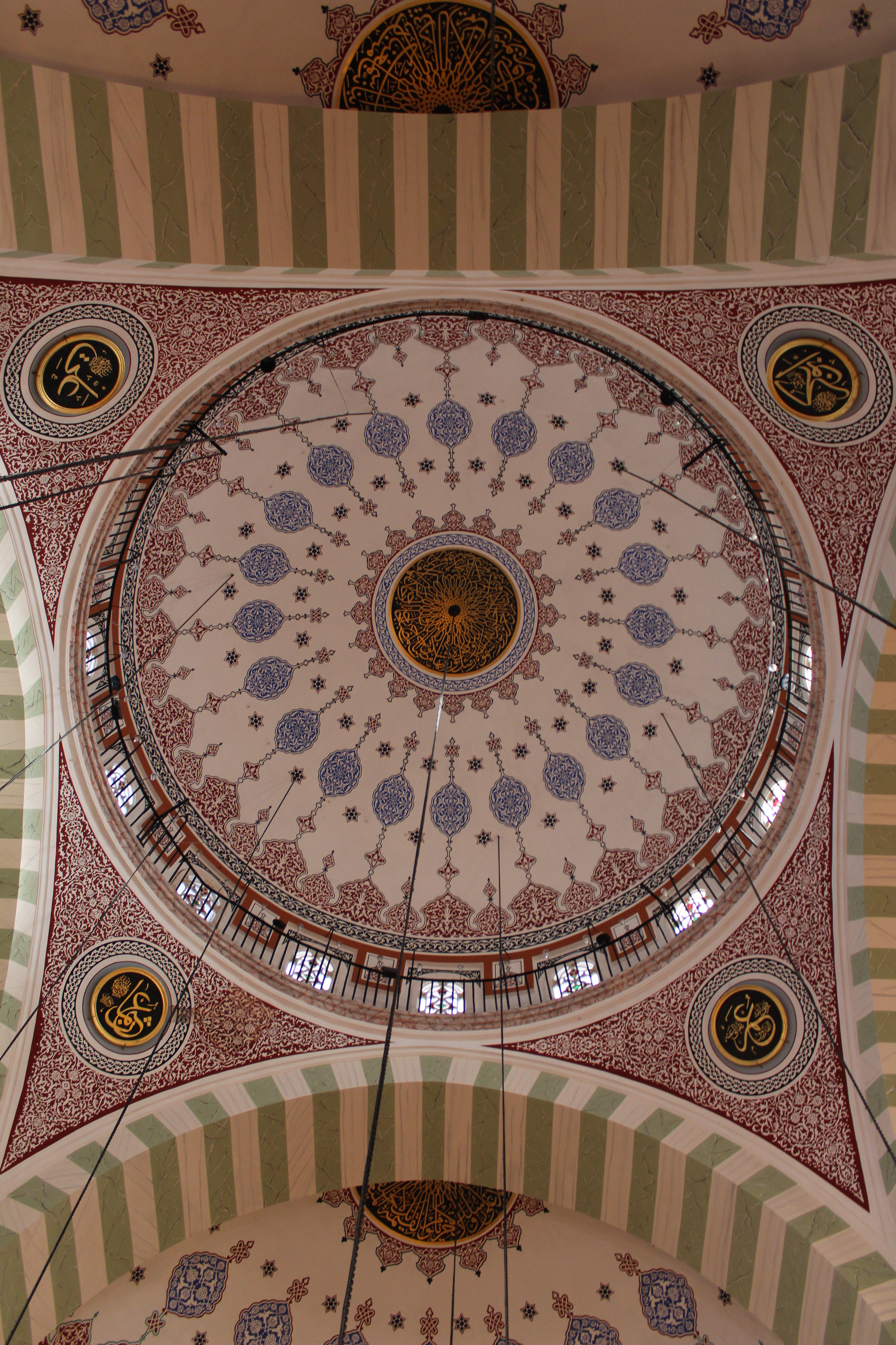 Interior view of the dome of Mihrimah Sultan Mosque, Üsküdar, İstanbul.